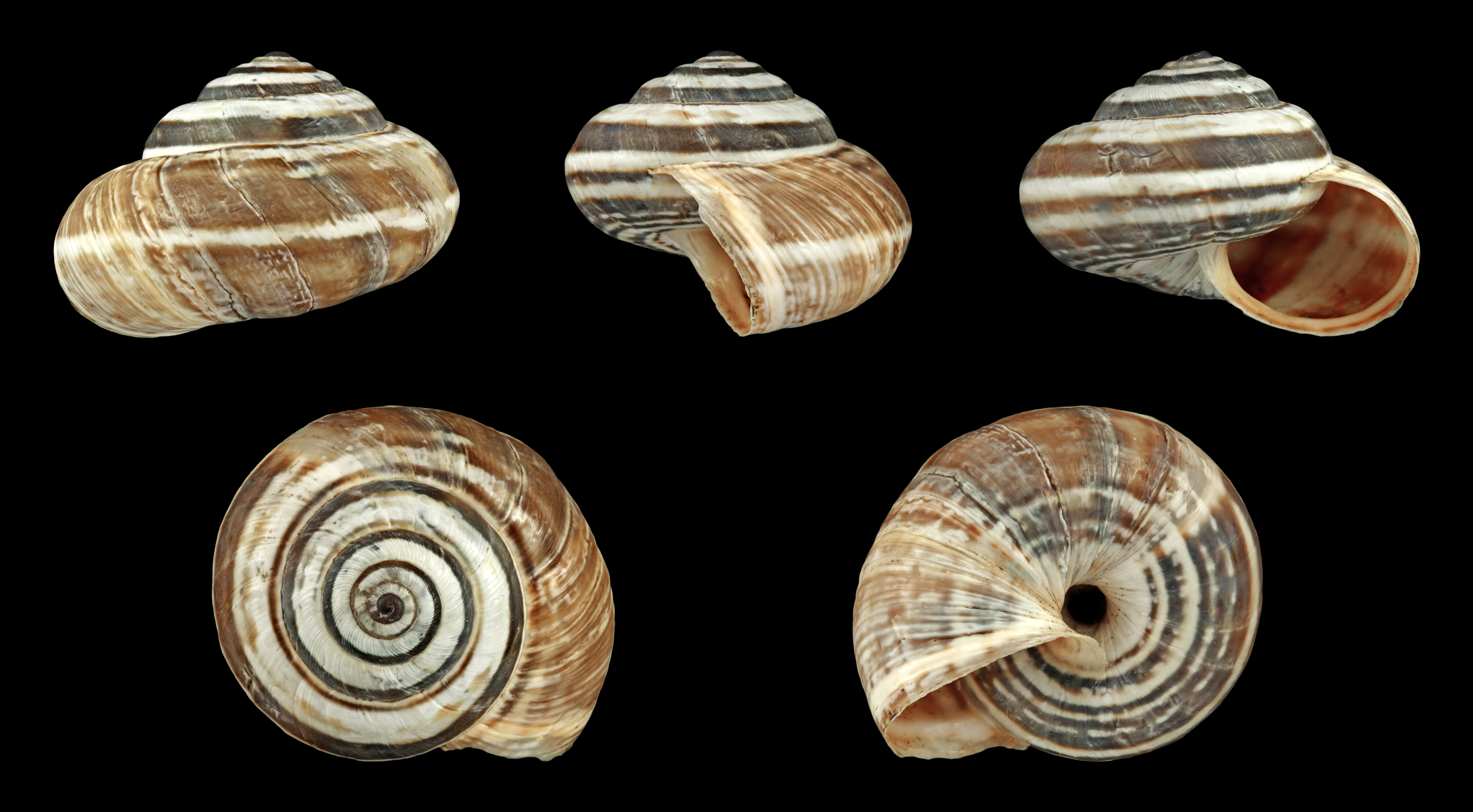 Vineyard Snail, dark form; Diameter 1.8 cm; Originating from Port-Leucate, France 42°52′49.09″N 3°2′54.72″E / 42.8803028°N 3.0485333°E; Shell of own collection, therefore not geocoded.